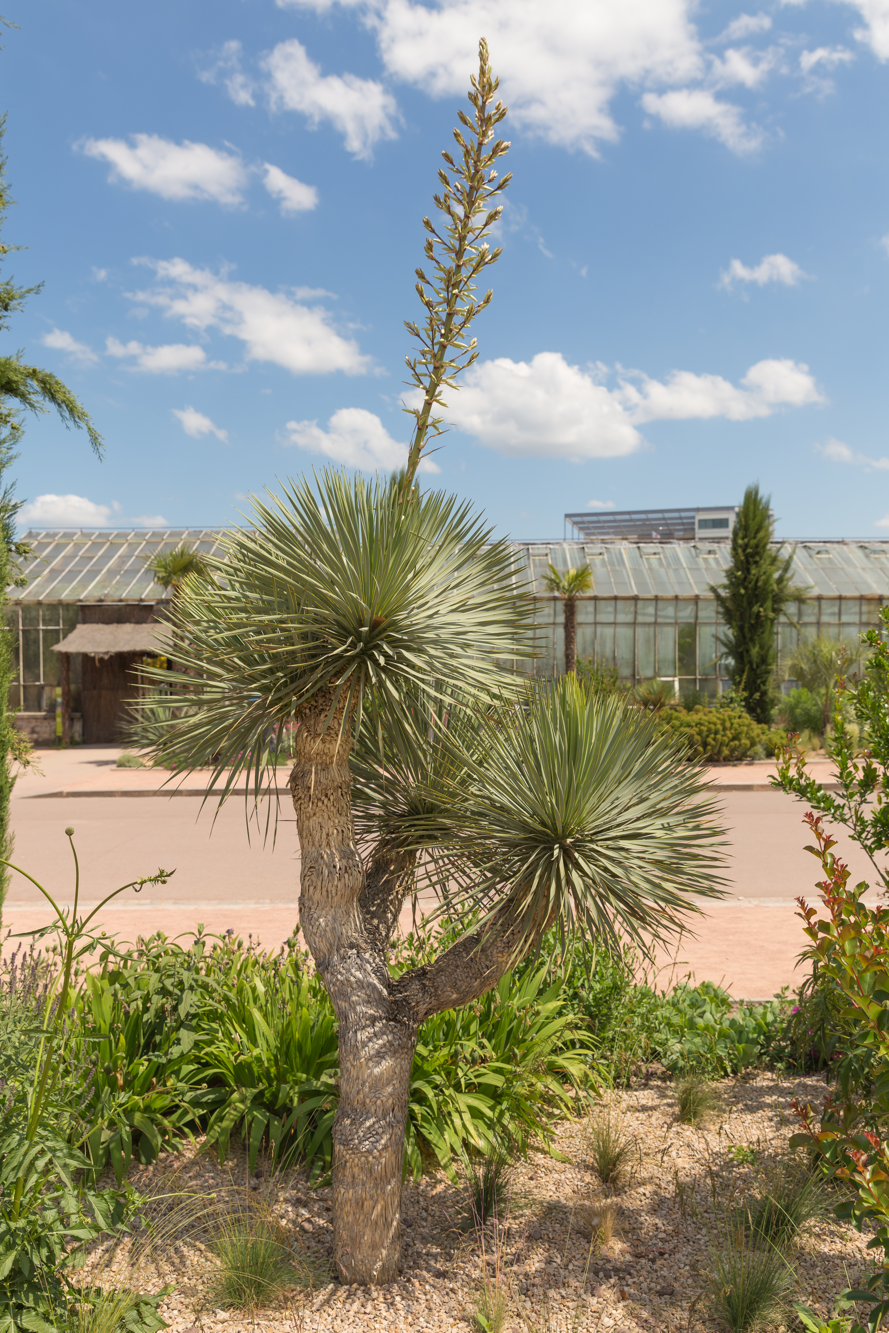 Yucca gloriosa (Yucca) in jardin botanique de Lyon, France.